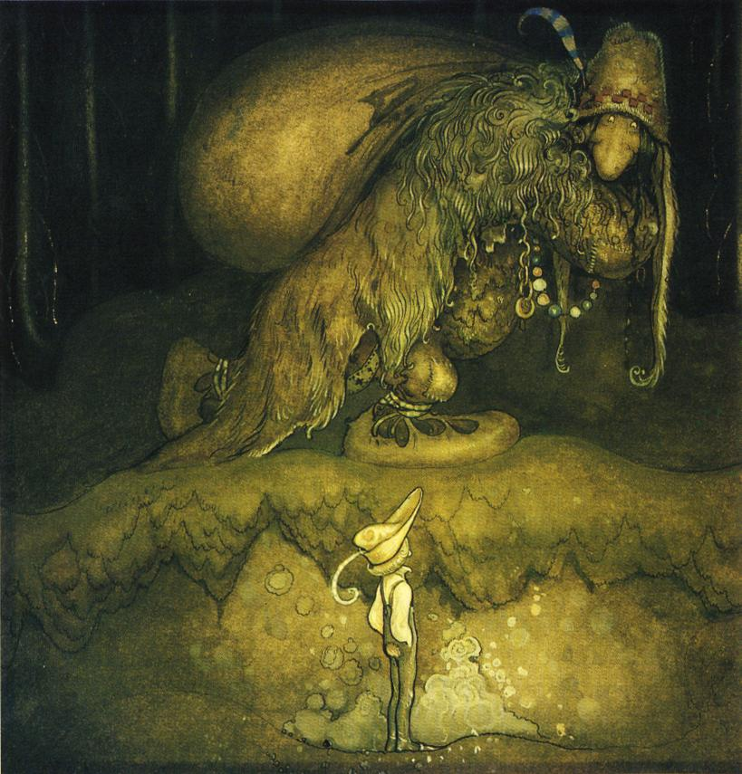 Illustration for "Pojken och trollen eller Äventyret" (The boy and the trolls or The Adventure) by Walter Stenström in "Bland tomtar och troll" (Among gnomes and trolls), 1915.